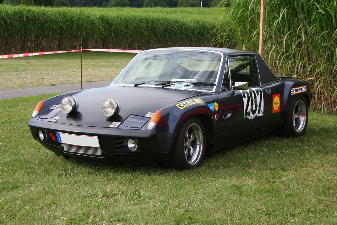 Porsche 914-6 at Classic Days Schloss Dyck 2012. View: left side